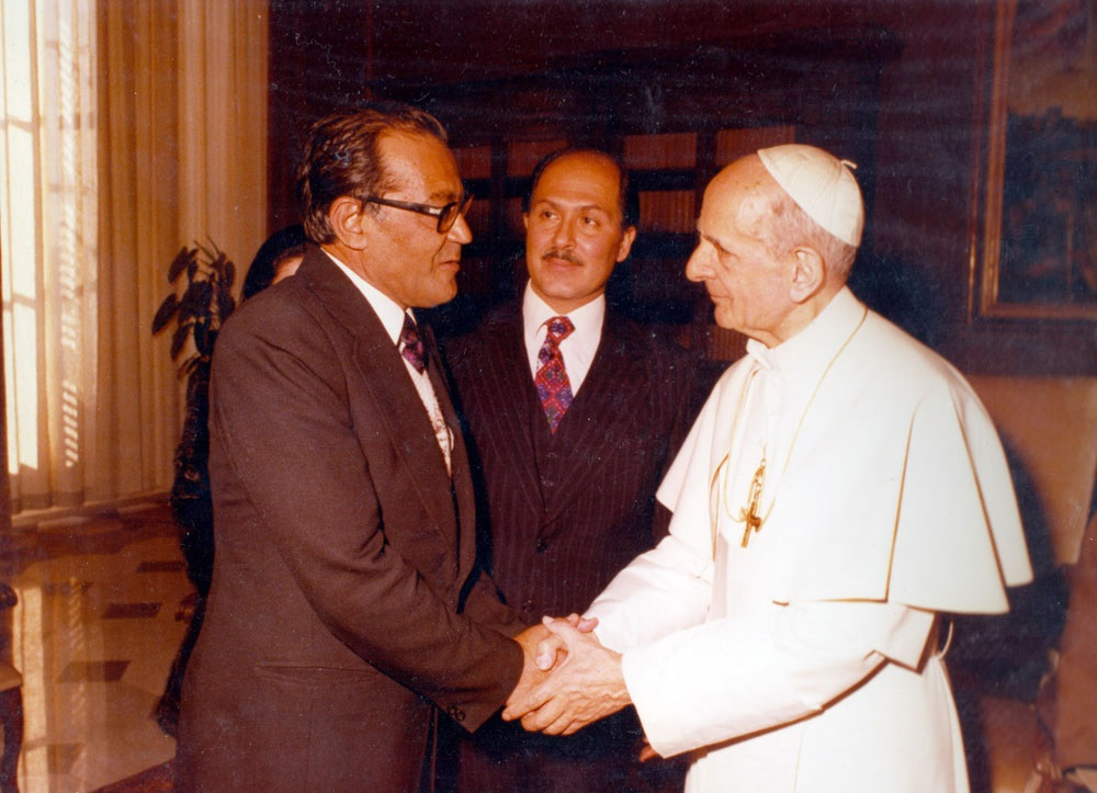 Jafar Shahidi and Pope Paul VI, Hossein Nasr in middle